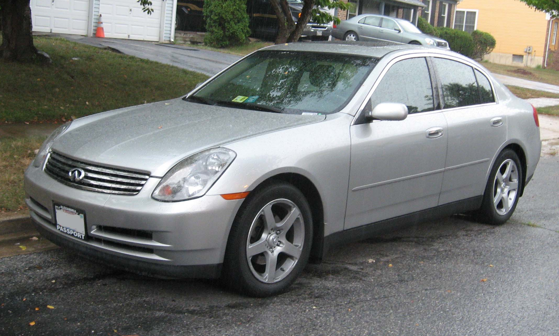 2004-2005 Infiniti G35 photographed in USA.